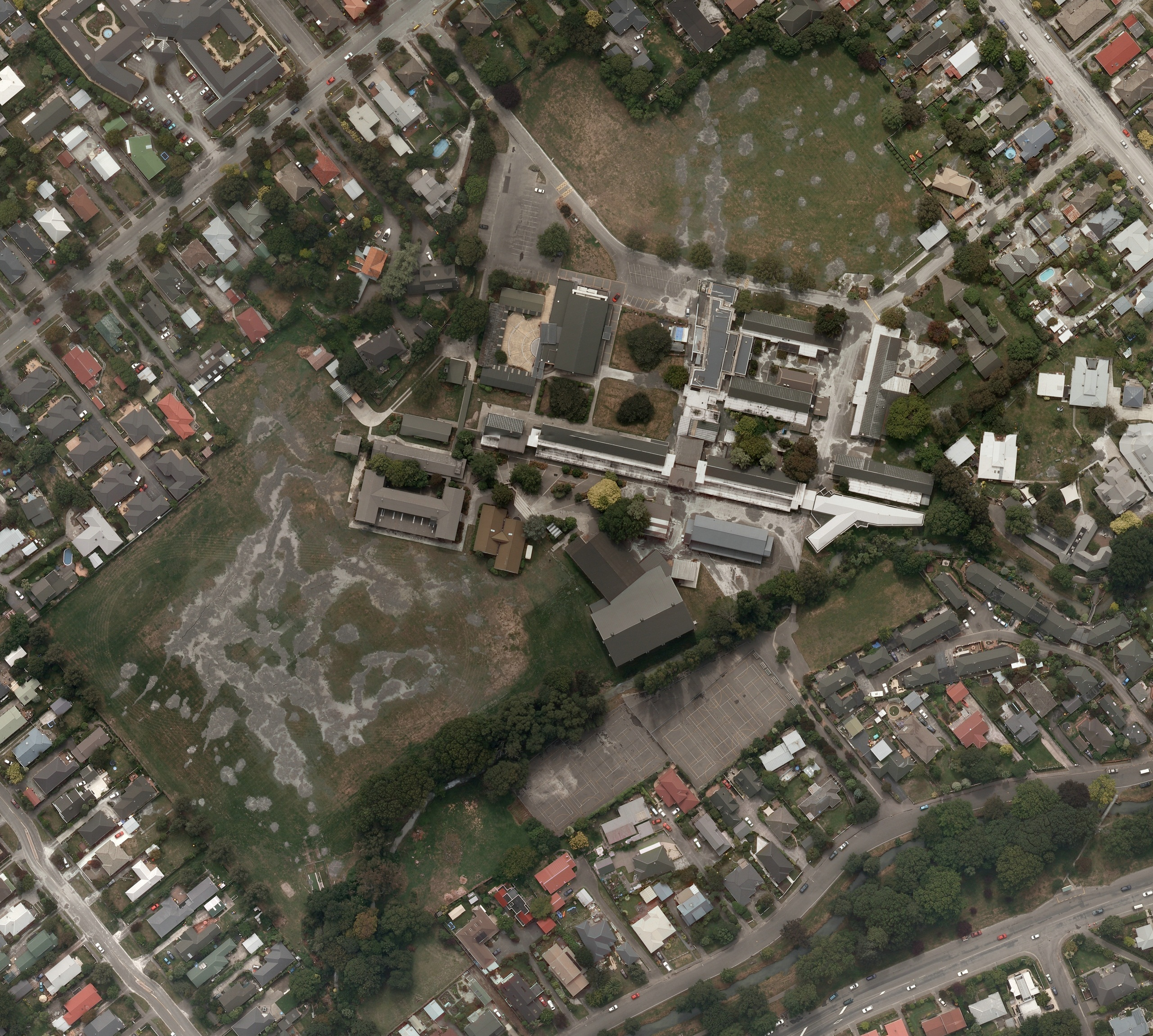 10cm colour orthophotography of the area affected by the 22 February 2011 Christchurch earthquake. Note the soil liquefaction on the school playing fields